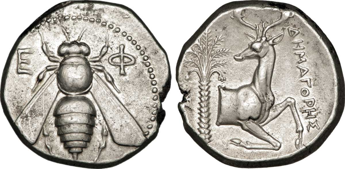 Tétradrachme de la cité d'Ephèse Date : c. 380-370 AC. Nom de l'atelier/ville : Ionie, Éphèse Description avers : Abeille vue de dessus ; grènetis circulaire perlé . Description revers : Protomé de cerf à droite, agenouillé, tournant la tête à gauche ; dans le champ à gauche, un palmier .